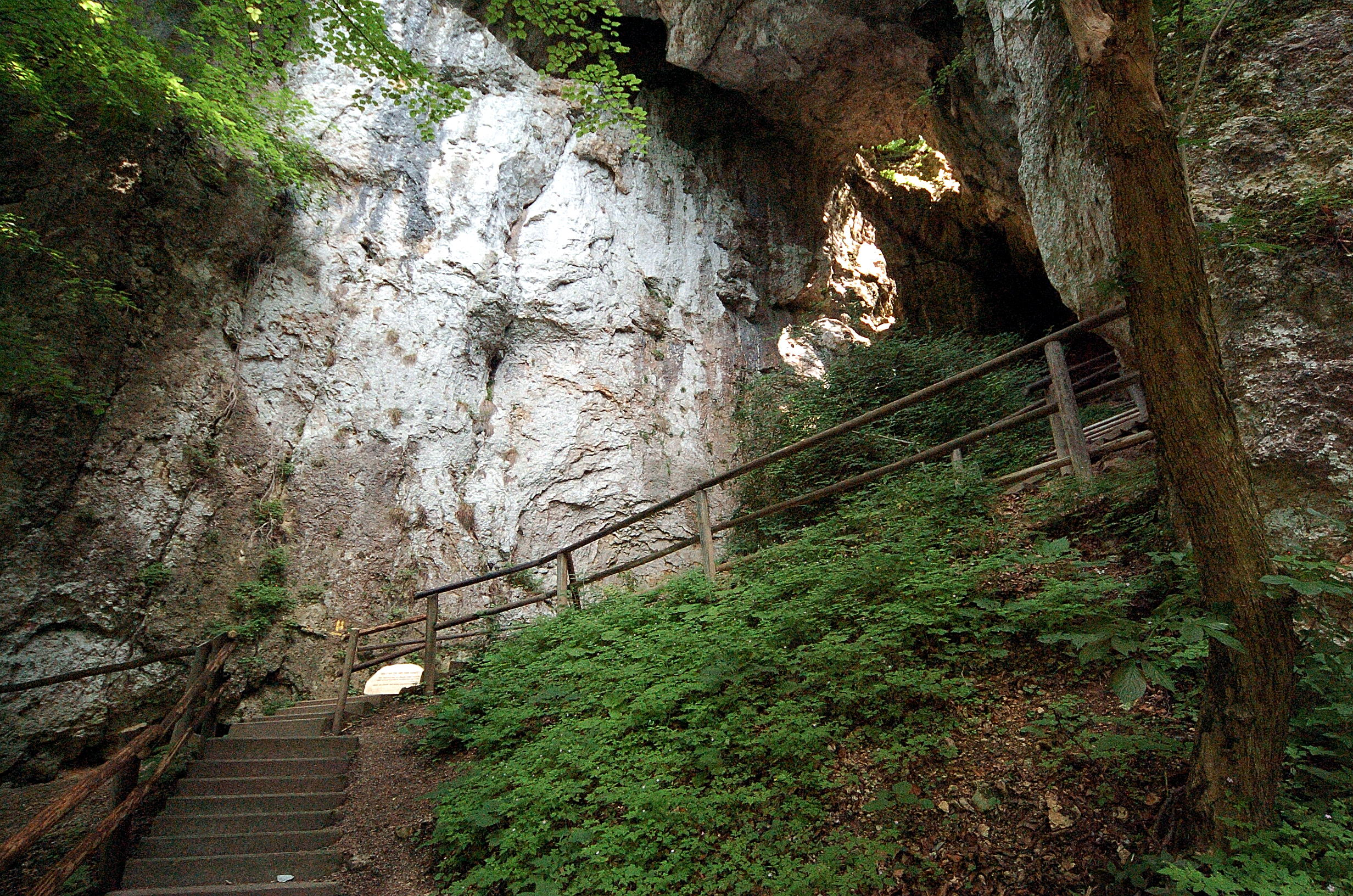 Rosalia grotto at Hemmaberg in the community Globasnitz, district Voelkermarkt, Carinthia, Austria